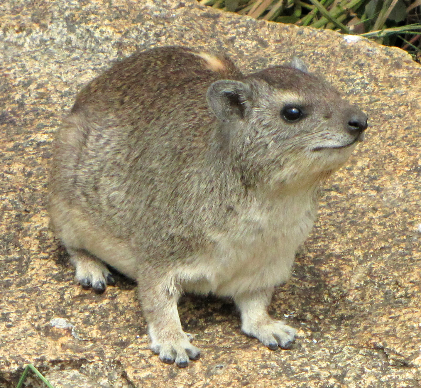 Yellow-spotted Hyrax (Heterohyrax brucei), Serengeti National Park, Tanzania